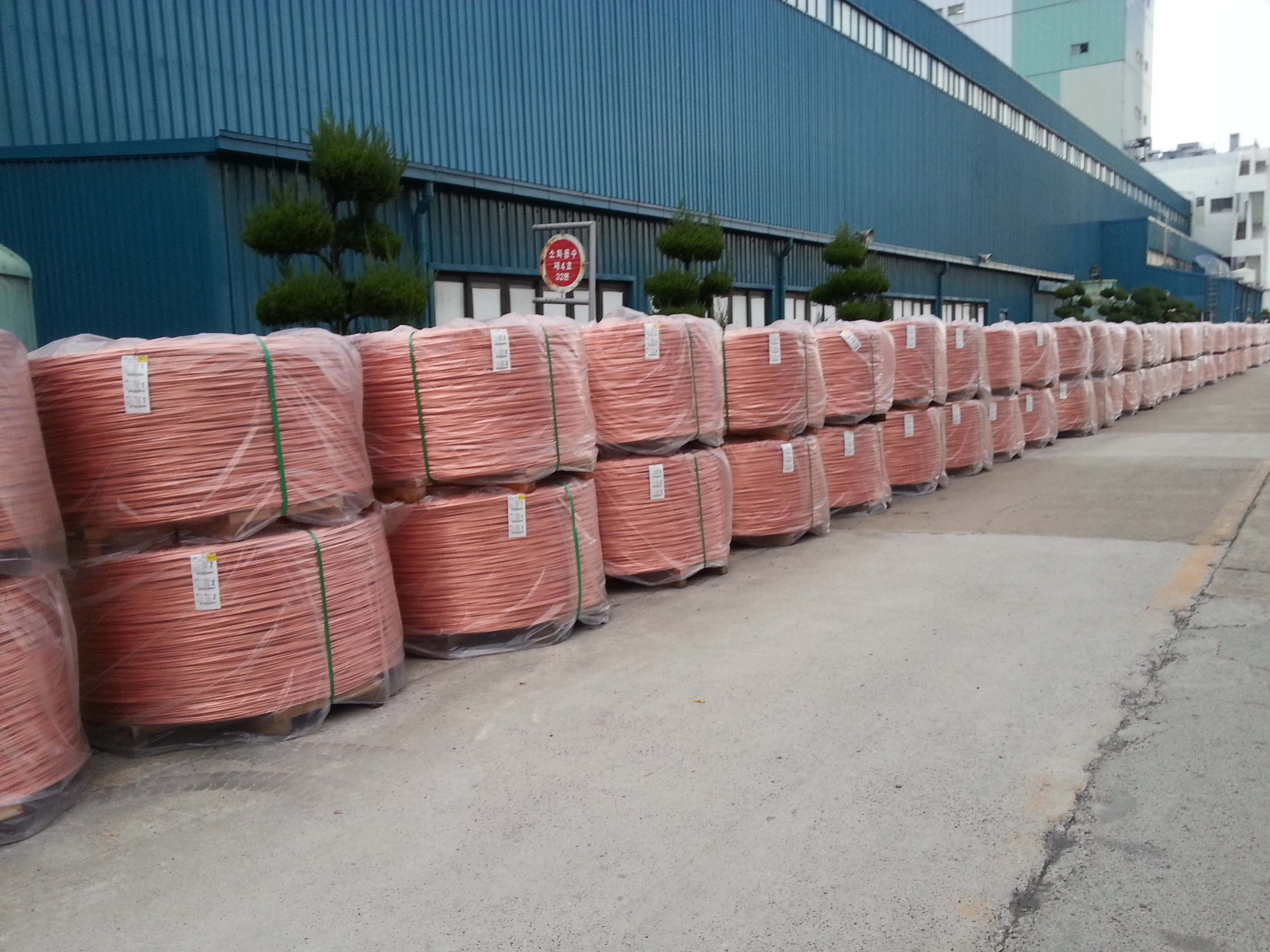 copper wire rod produced by LS Cable & System at their copper wire rod factory in Gumi, South Korea